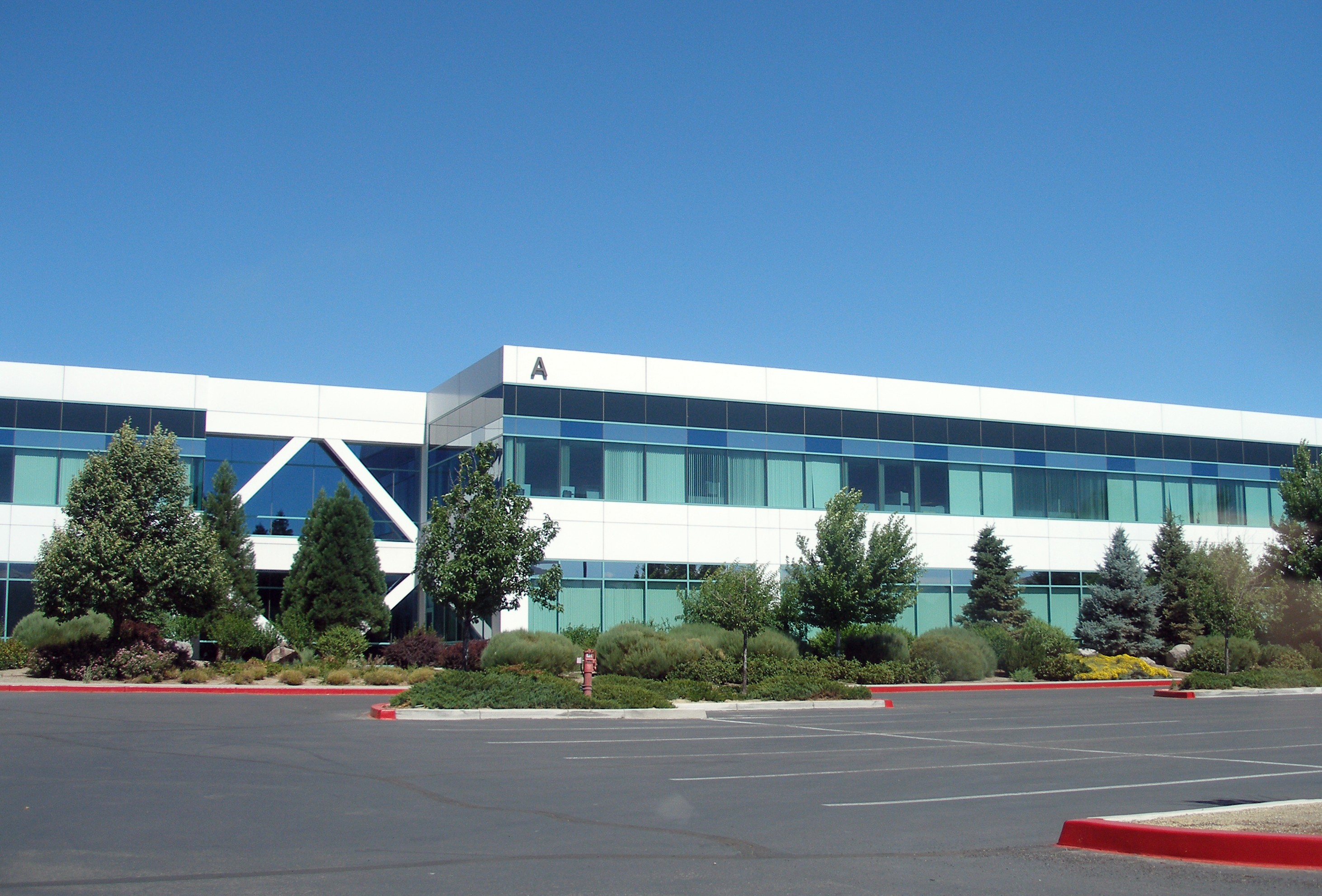 Office buildings at International Game Technology's headquarters in Reno.